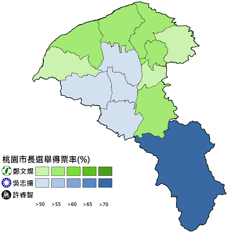 Taoyuan 2014